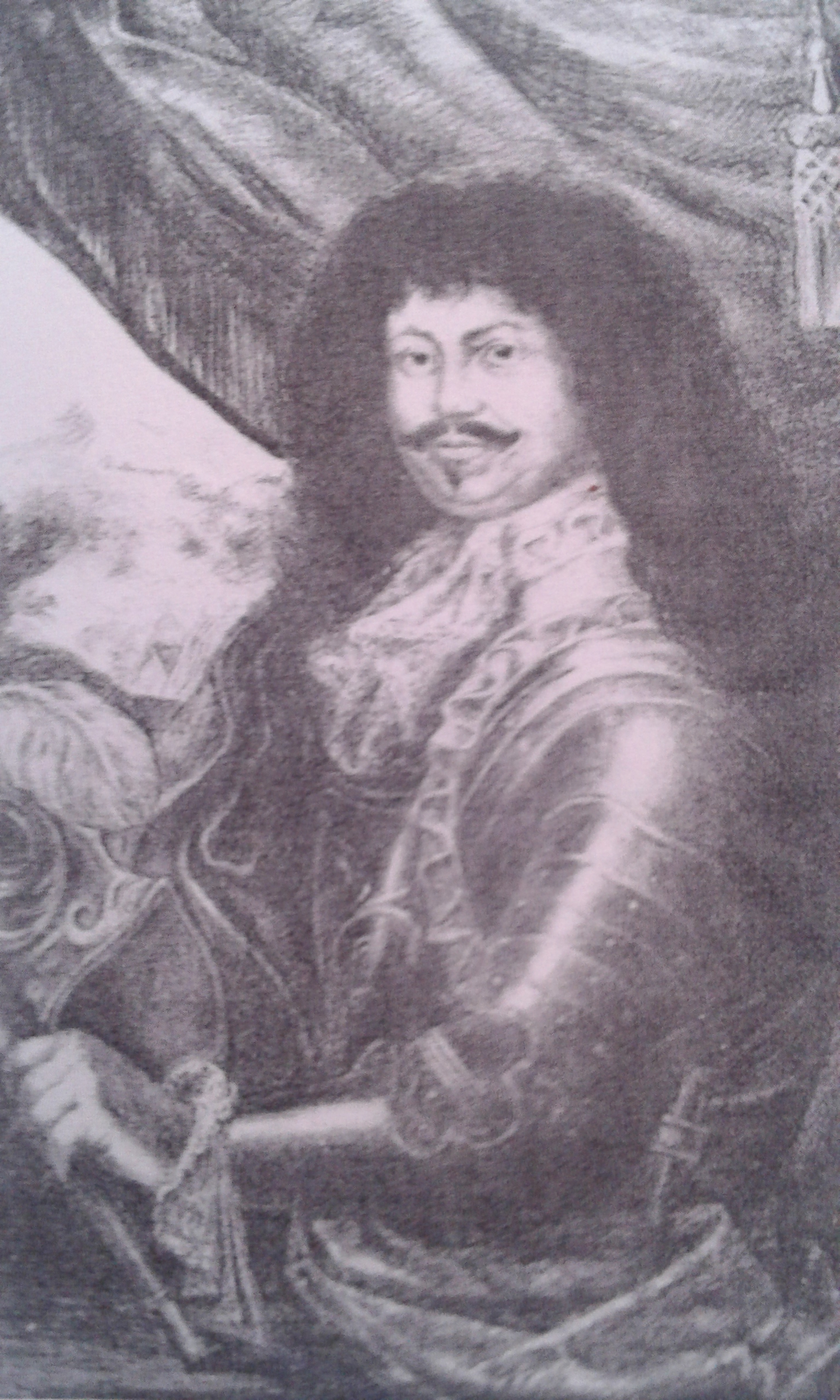 Zikmund Myslík z Hyršova